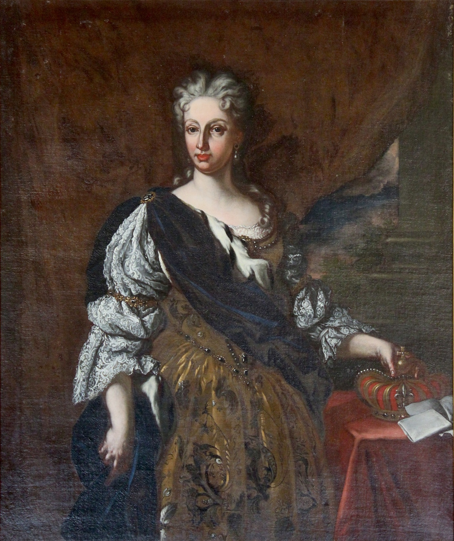 The portrait of Violante Beatrice of Bavaria, widow of Ferdinando de' Medici, Grand Prince of Tuscany, is part of the so-called "serie aulica" (or "of the most serene princes"), a collection of portraits of the most important members of the House of Medici. The work entered into the Uffizi Gallery on 12 June 1723. For this portrait is documented the name of the painter Giovanni Gaetano Gabbiani, reason why all the last portraits of the "serie aulica", similar in execution, are now attributed to him.